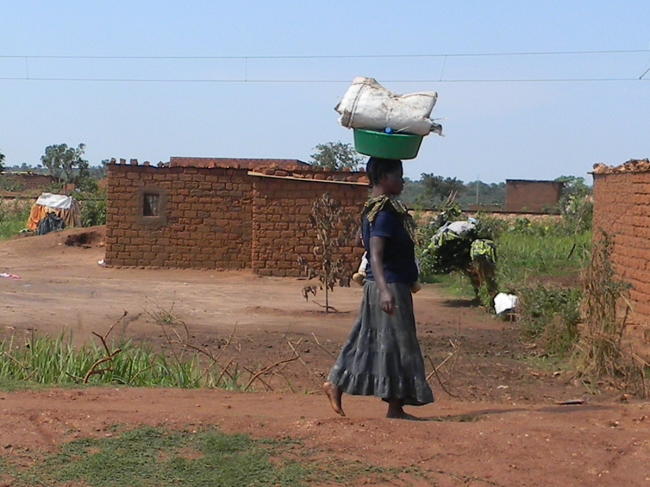 the nobleman on the go...in Kolwezi R.D.Congo. This is an image with the theme "Africa on the Move or Transport" from: Democratic Republic of the Congo